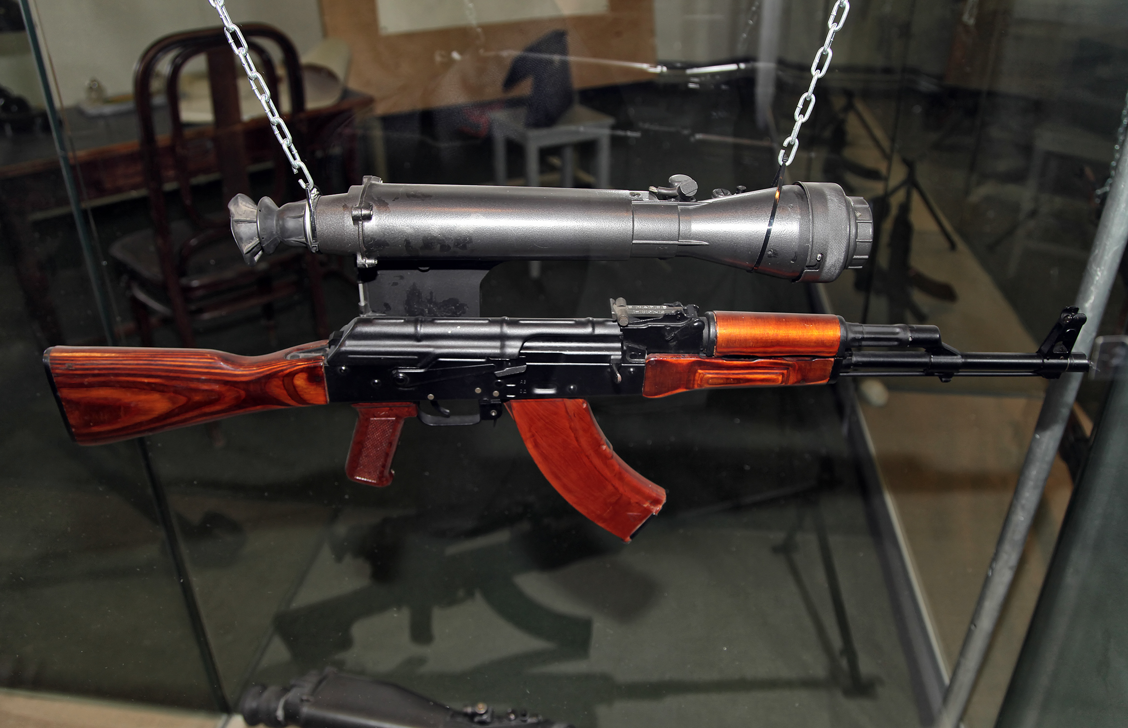 7.62mm assault rifle AKM with 1PN58 night scope